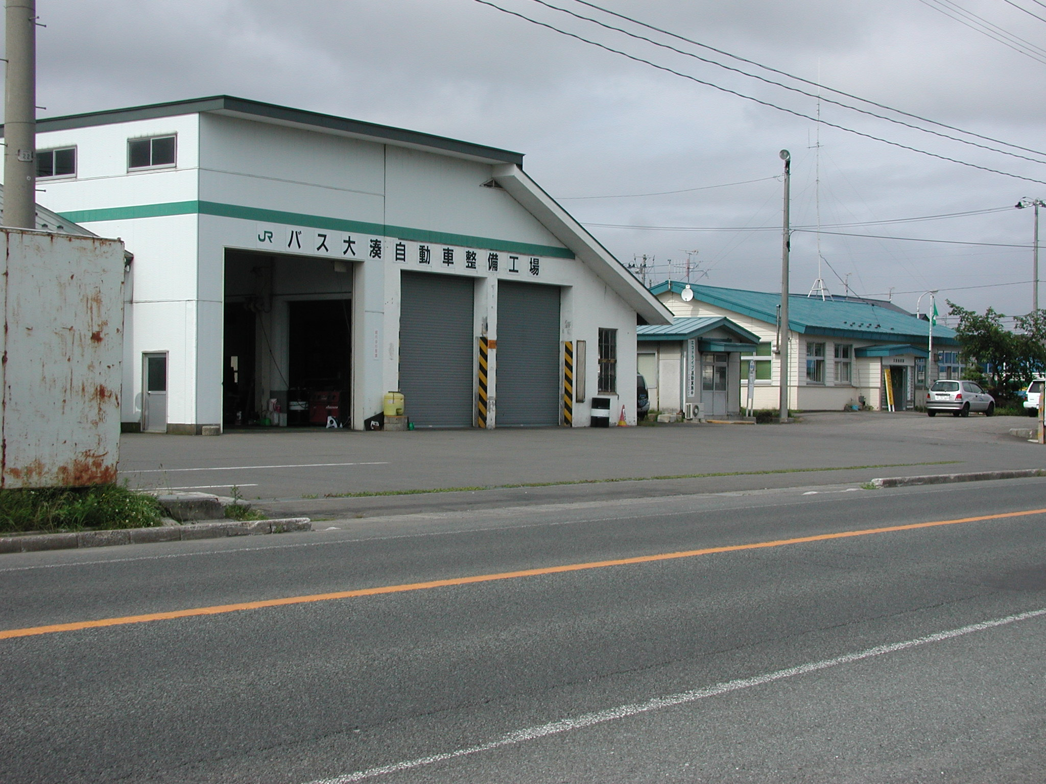 The JR Bus Tohoku Co., Ltd. ŌMinato Office